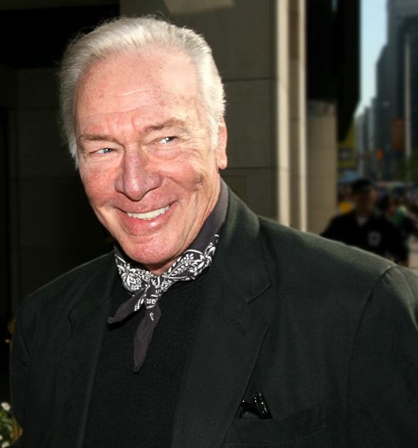 The Canadian actor Christopher Plummer at the 2007 Toronto International Film Festival.